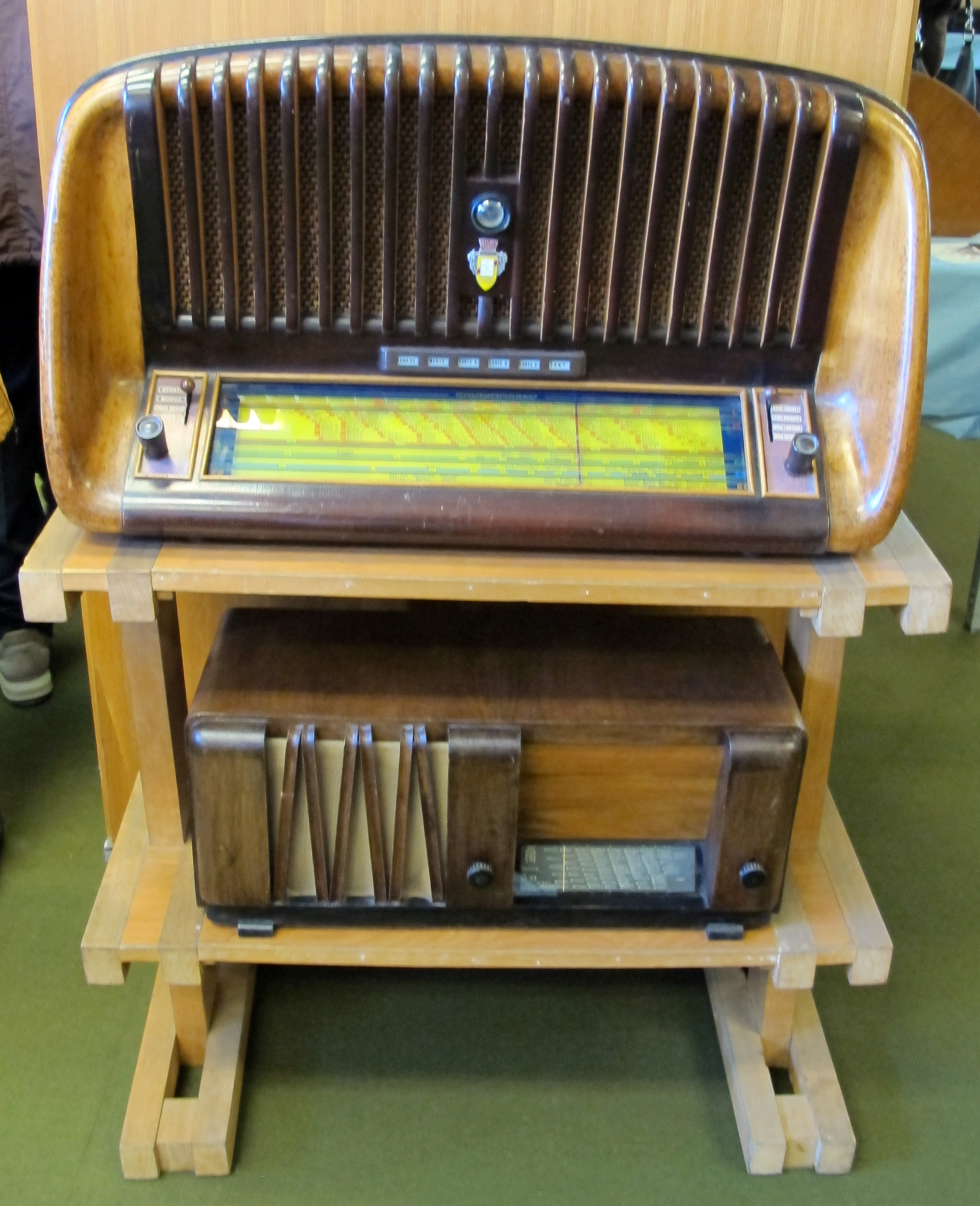 Antique radios amateurs exhibition (Florence 2014)